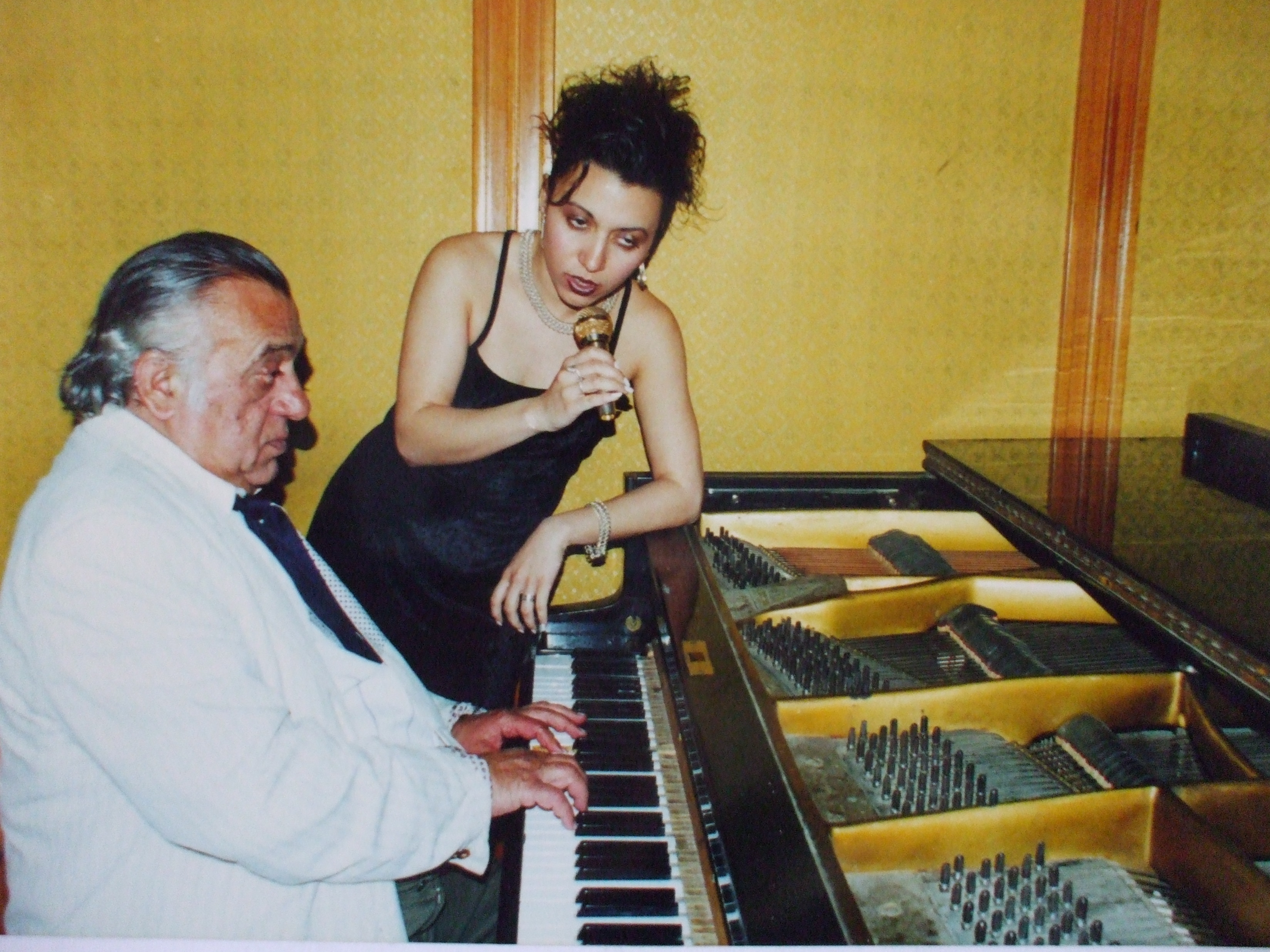 andrei colompar & natalia colompar